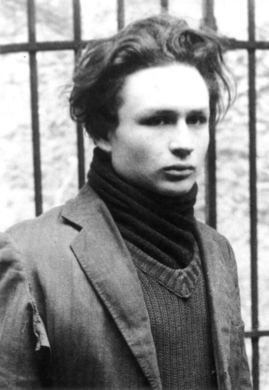 See the article on the Affiche rouge. The image shows most likely Marcel Rayman, c.f. Image:Affiche rouge.jpg.